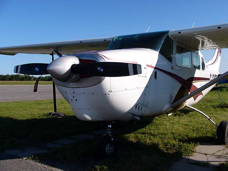 I took this photo at Carp Airport (Ontario) on 30 July 2006